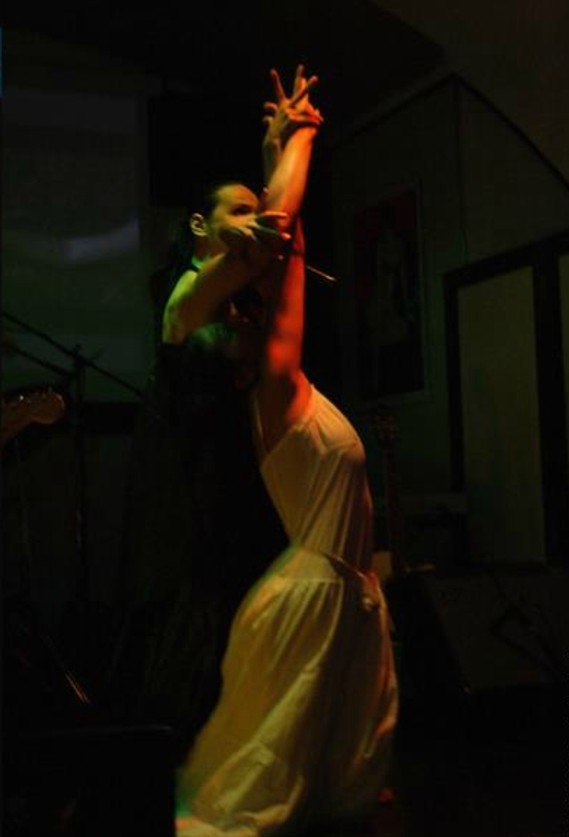 C.F.F. e il Nomade Venerabile live 2008